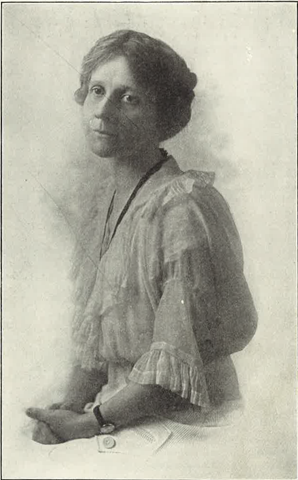 Eunice Rockwood Oberly; a woman seated in a white dress with a watch and ribbon or necklace.